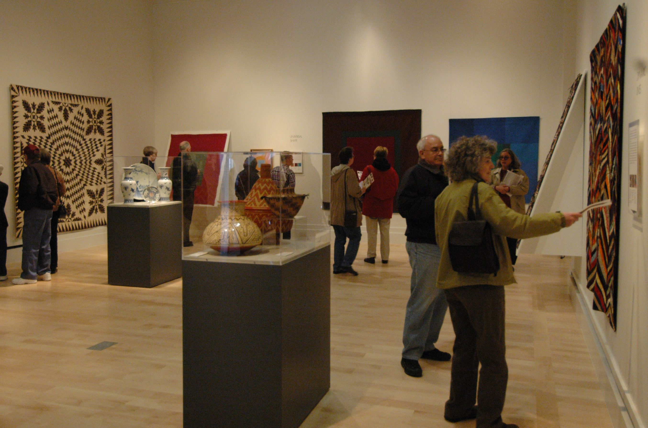 Gallery of the International Quilt Study Center & Museum during exhibition "Quilts in Common"